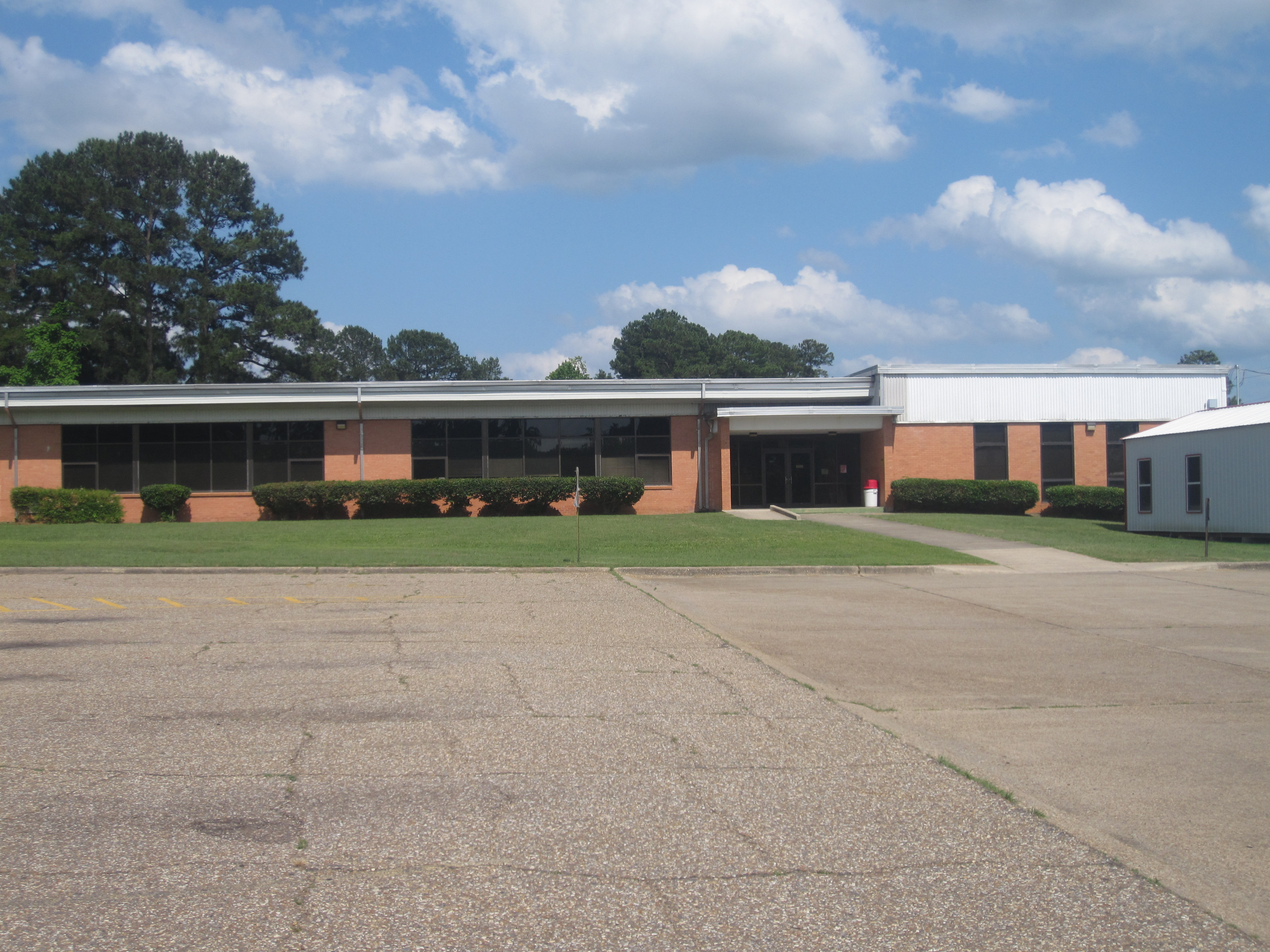 I took photo with Canon camera.